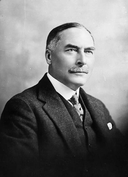 Hon. Sir James Alexander Lougheed, (Supt. General of Indian Affairs, Minister of the Interior and Minister of Mines) b. Sept. 1, 1854 - d. Nov. 2, 1925